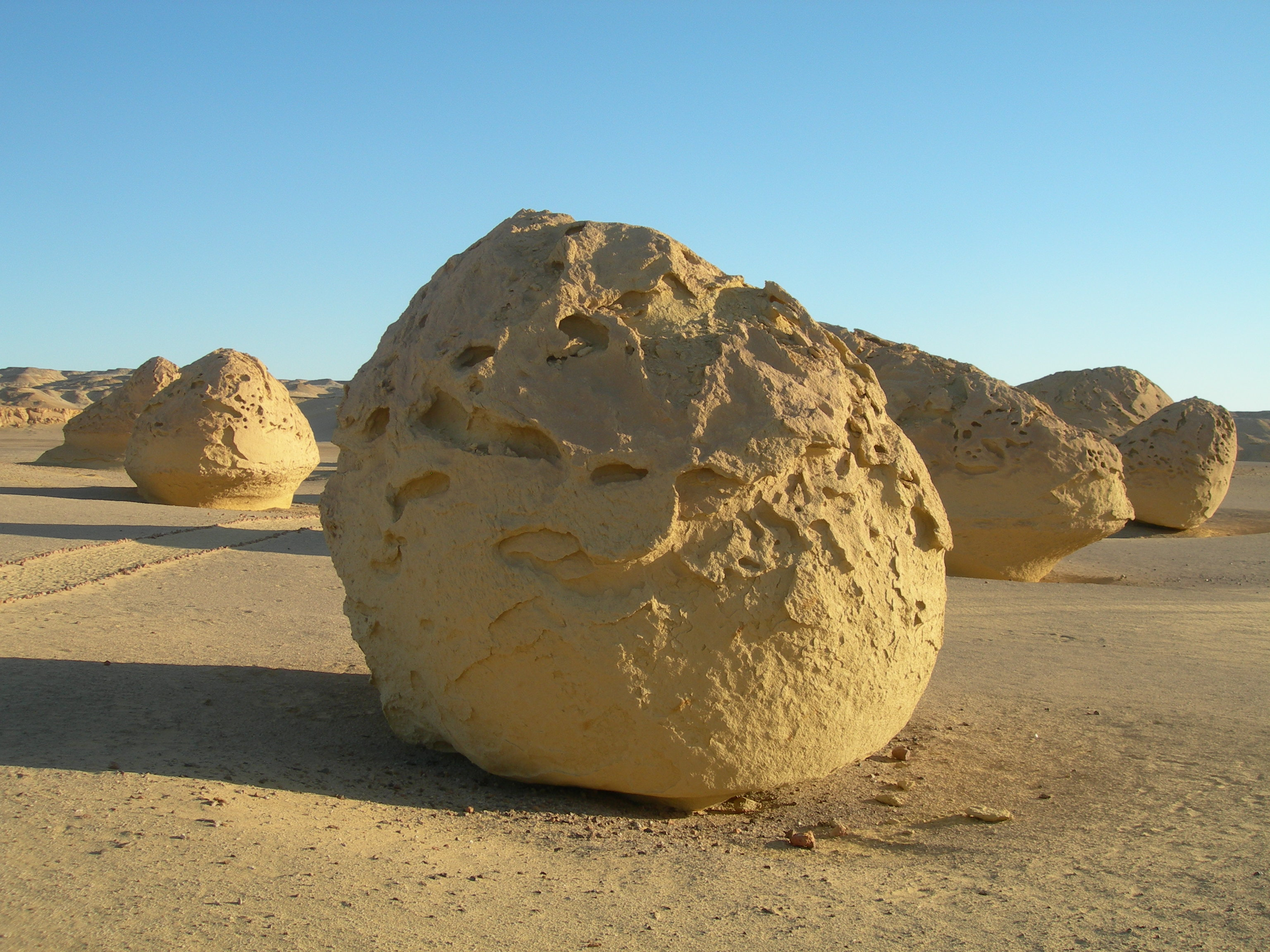 Wadi Al-Hitan (Whale Valley) (Egypt)